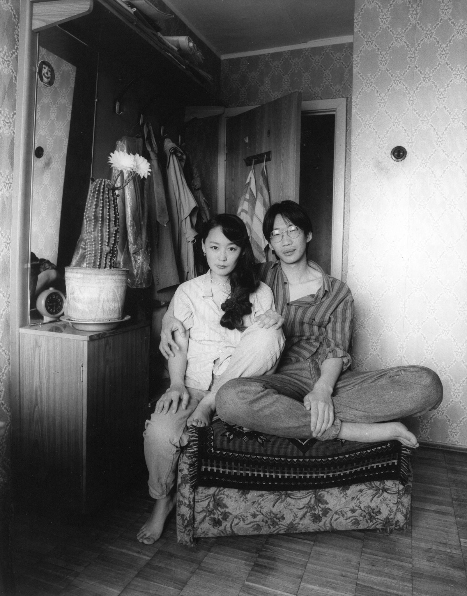 Анх бай хөлсөлж байхдаа